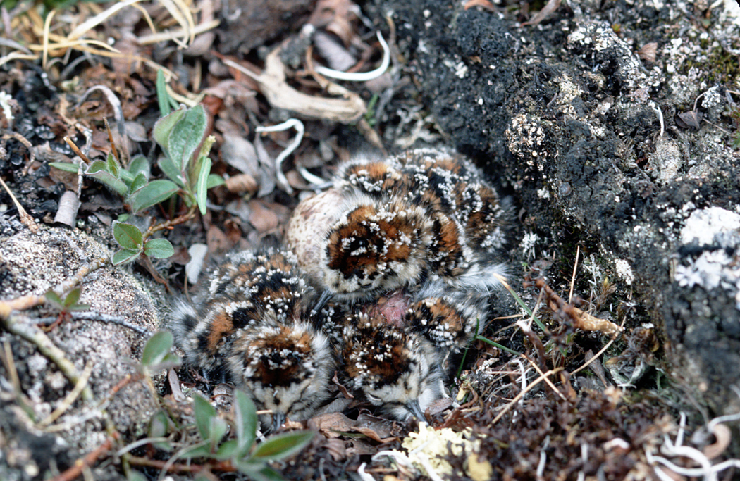 Baird's Sandpiper (Calidris bairdii) chicks, camouflaged